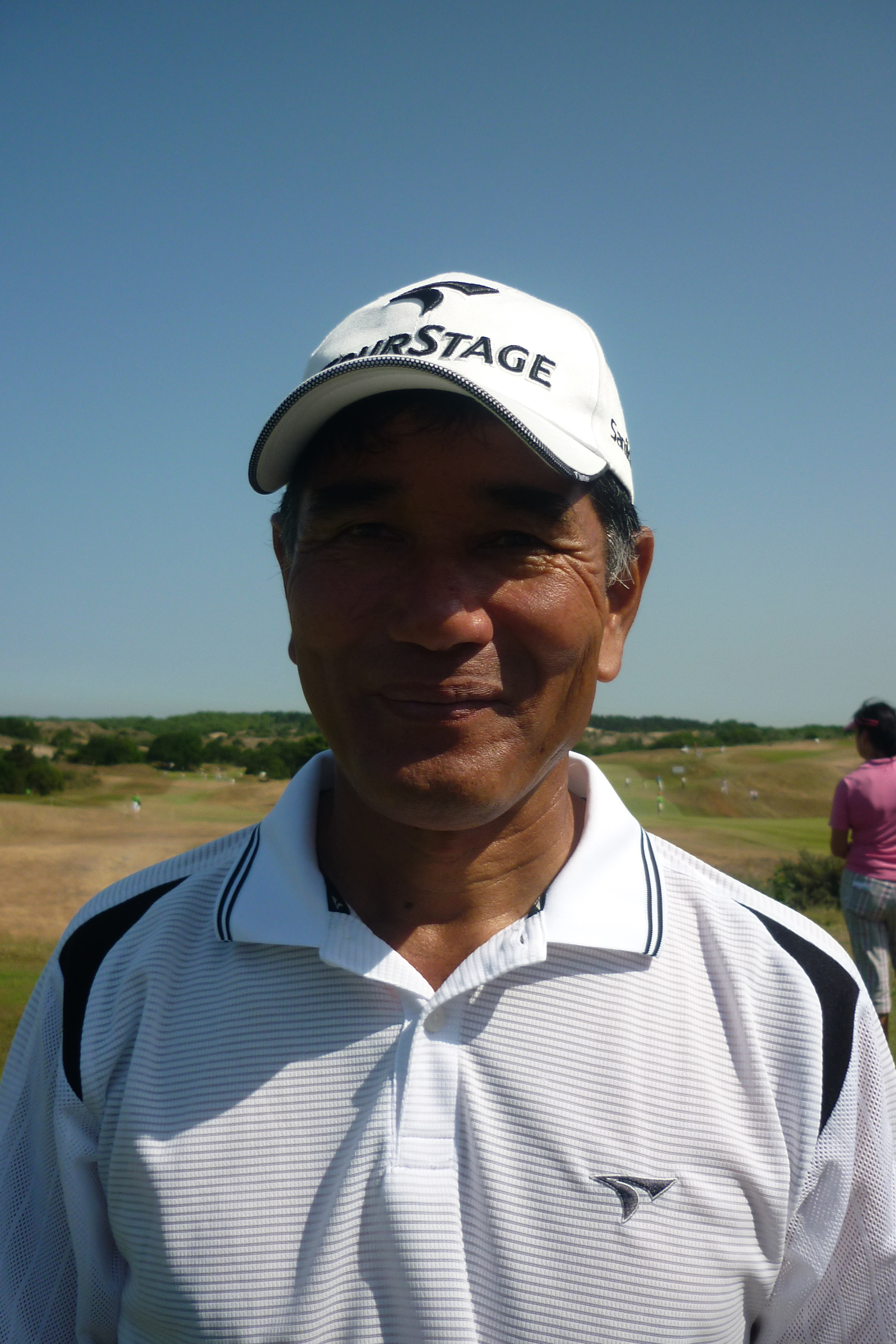 Tomori at Van Lanschot Senior Open